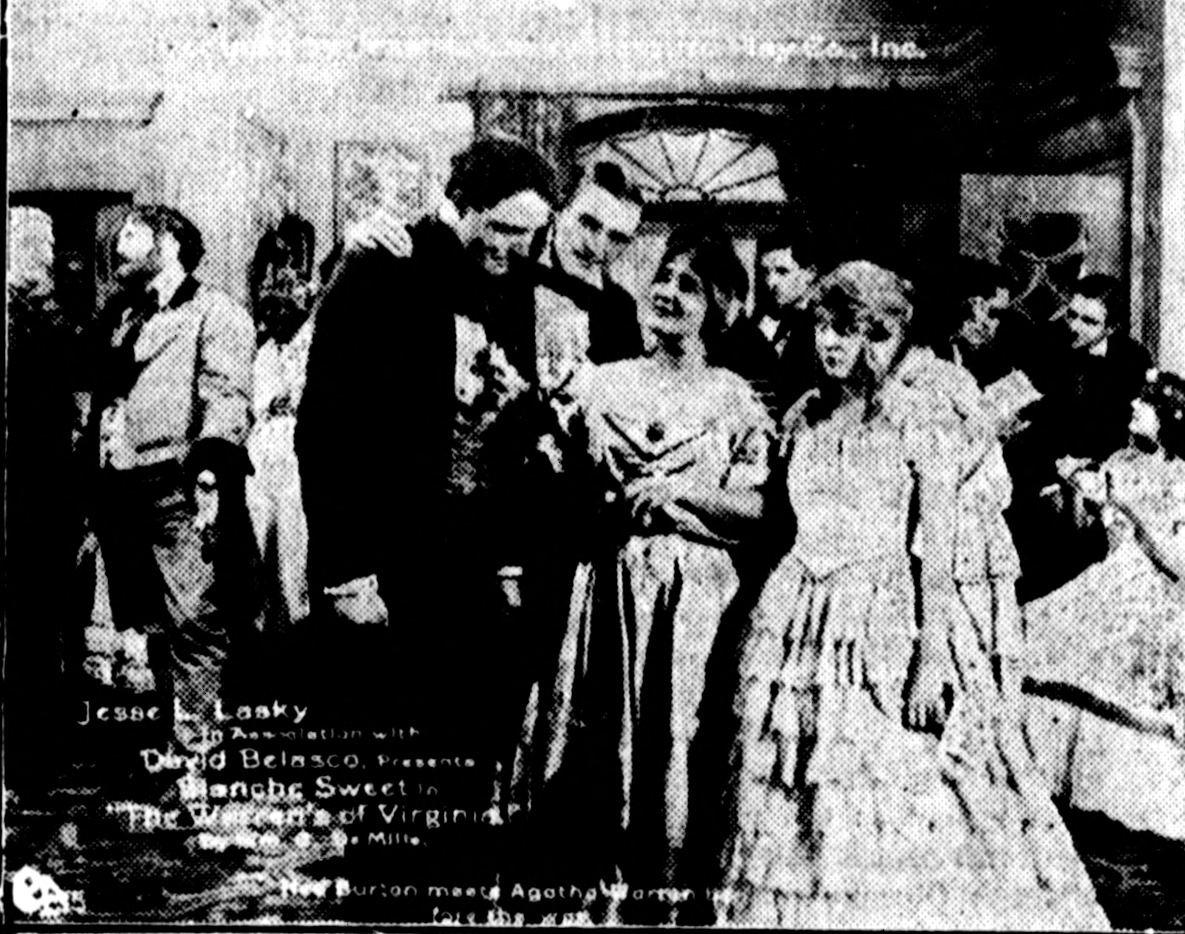 The Warrens of Virginia is a 1915 American drama film directed by Cecil B. DeMille. This is a publicity photo published in a 1916 newspaper.